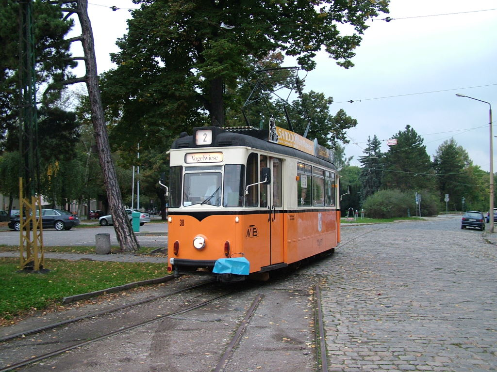 Tramcar 38 (type Gothawagen/T57) of the Naumburg tram at Poststrasse stop.